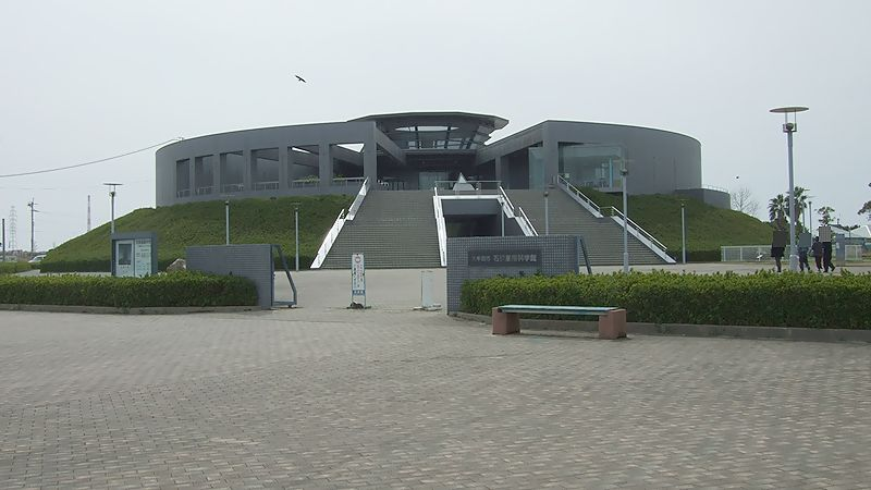 Omuta coal industry and science museum